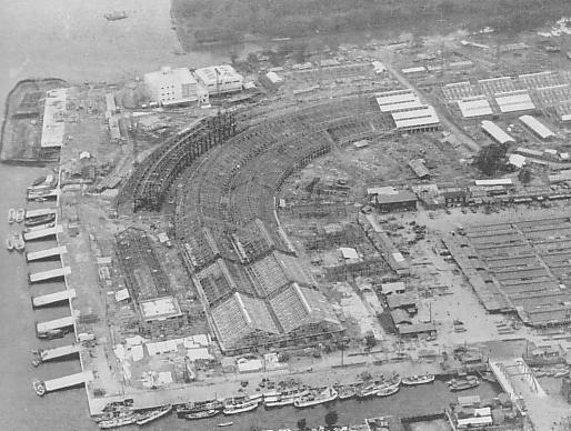 Tsukiji Fish Market under construction